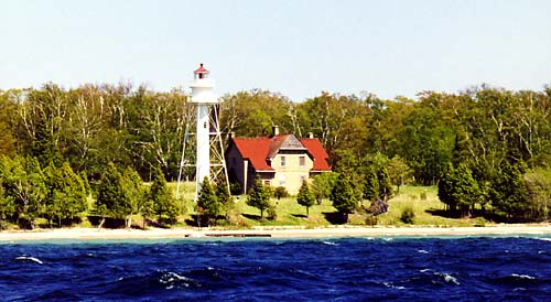 I took this picture